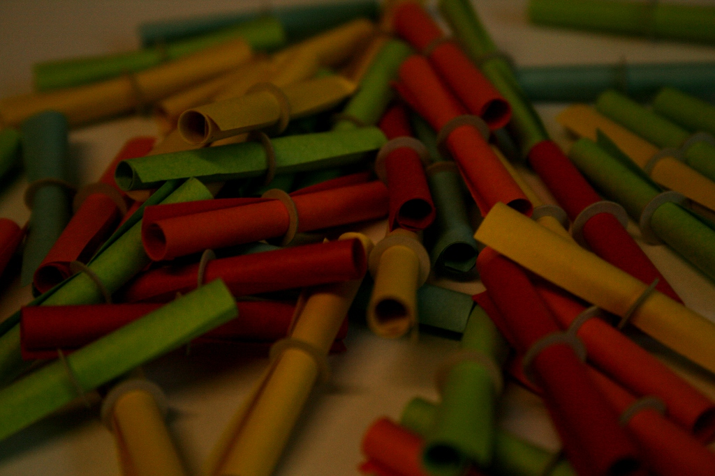 Commonly used raffle tickets